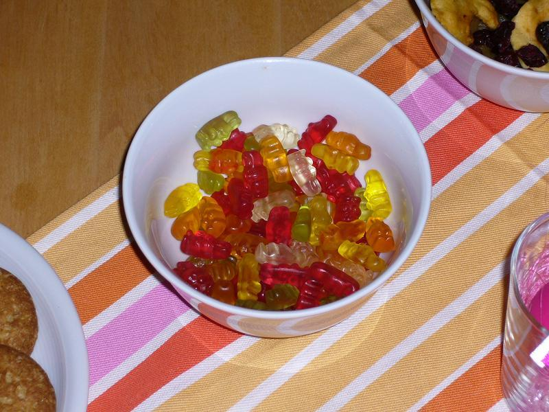 Gummy bears by Jared Preston.